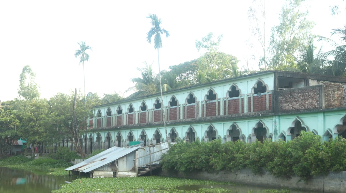 Main building of women branch in Haildhar Madrasah